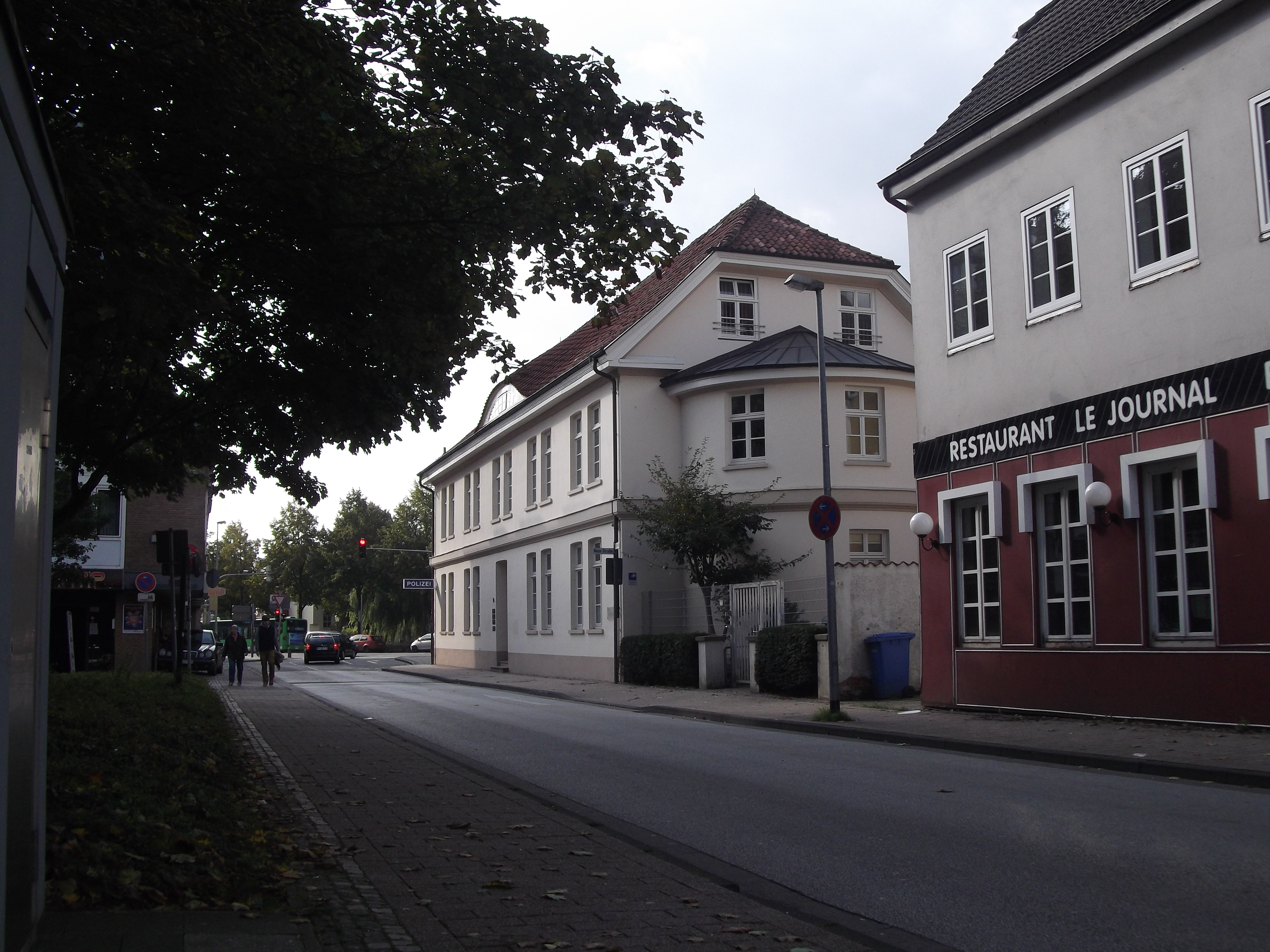 Building of the Evangelisches Lehrerseminar Oldenburg in Oldenburg (Oldenburg), Wallstrasse. Constructed 1807 by the architect Georg Siegmund Lasius. Used by the seminar until 1846. Today used as the 2nd Police Precinct Oldenburg.